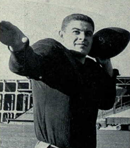 Photograph of Tony Branoff This work is in the public domain because it was published in the United States between 1923 and 1963 and although there may or may not have been a copyright notice, the copyright was not renewed. Unless its author has been dead for the required period, it is copyrighted in the countries or areas that do not apply the rule of the shorter term for US works, such as Canada (50 pma), Mainland China (50 pma, not Hong Kong or Macao), Germany (70 pma), Mexico (100 pma), Switzerland (70 pma), and other countries with individual treaties. See Commons:Hirtle chart for further explanation. This work is in the public domain in the United States because it was published in the United States between 1923 and 1977 without a copyright notice. See this page for further explanation. Note that it may still be copyrighted in jurisdictions that do not apply the rule of the shorter term for US works (depending on the date of the author's death), such as Canada (50 p.m.a.), Mainland China (50 p.m.a., not Hong Kong or Macao), Germany (70 p.m.a.), Mexico (100 p.m.a.), Switzerland (70 p.m.a.), and other countries with individual treaties.